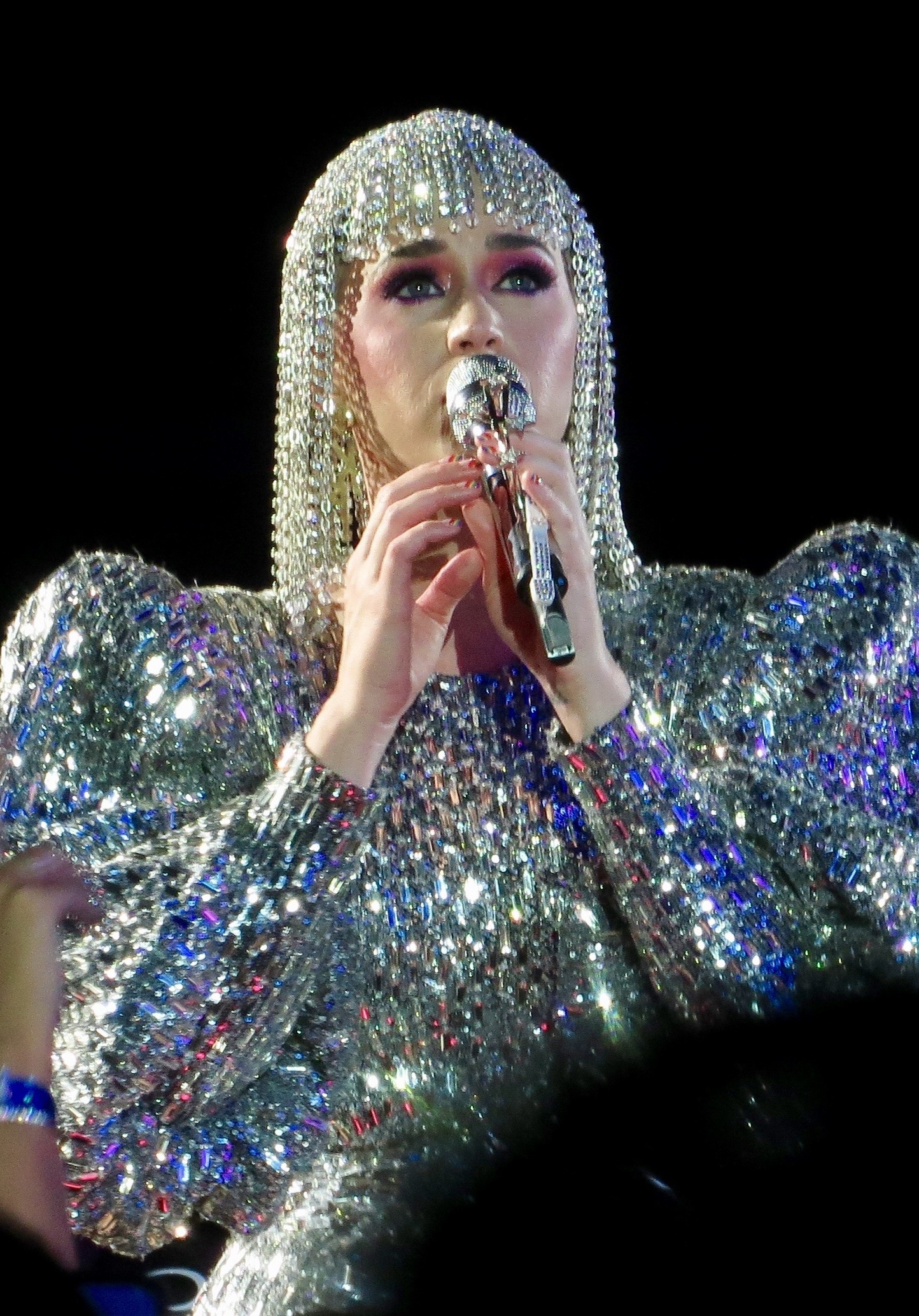 Katy Perry 12